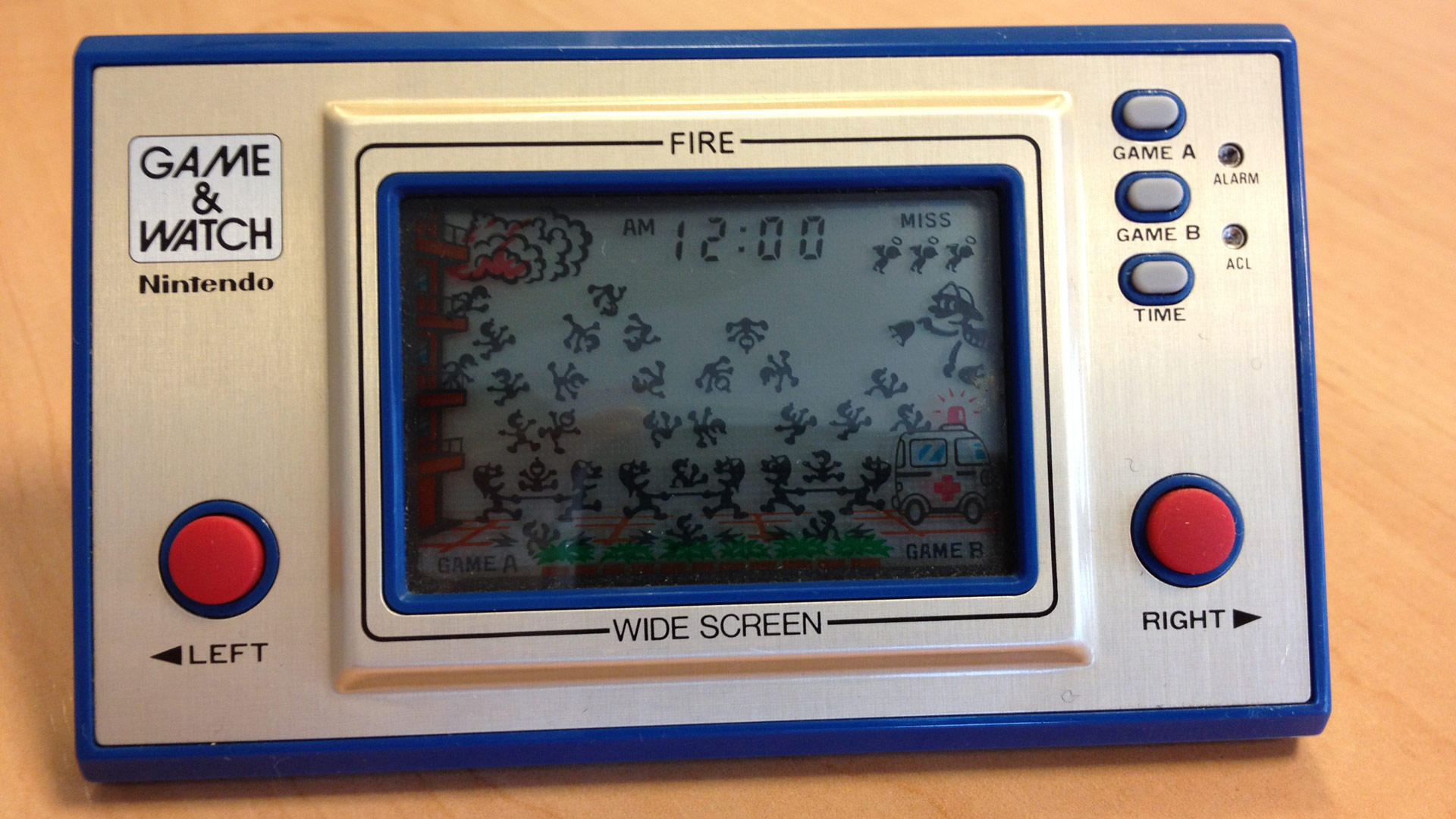 Nintendo "Game & Watch" wide screen with game "Fire"